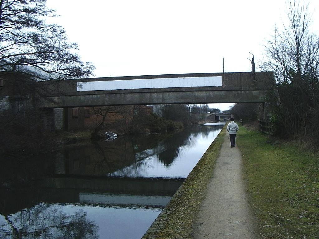 Taylor's Bridge, Minworth On Birmingham and Fazeley Canal, in the past providing pedestrian access to factories on Minworth Industrial Estate to/from A38 Kingsbury Road.